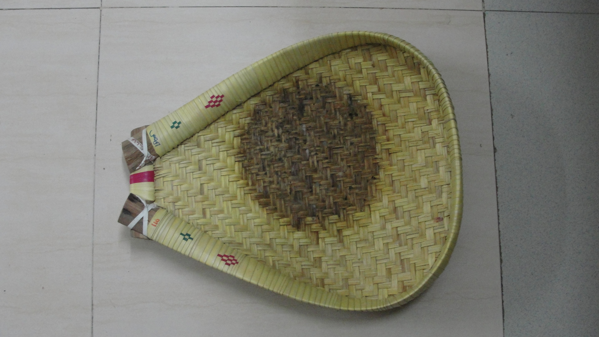 The photo depicting a basket used for cleaning of cereals. This is one of the Tamil cultural icon; this blower is one of the folk material of districts of Tirunelveli and Tuticorin